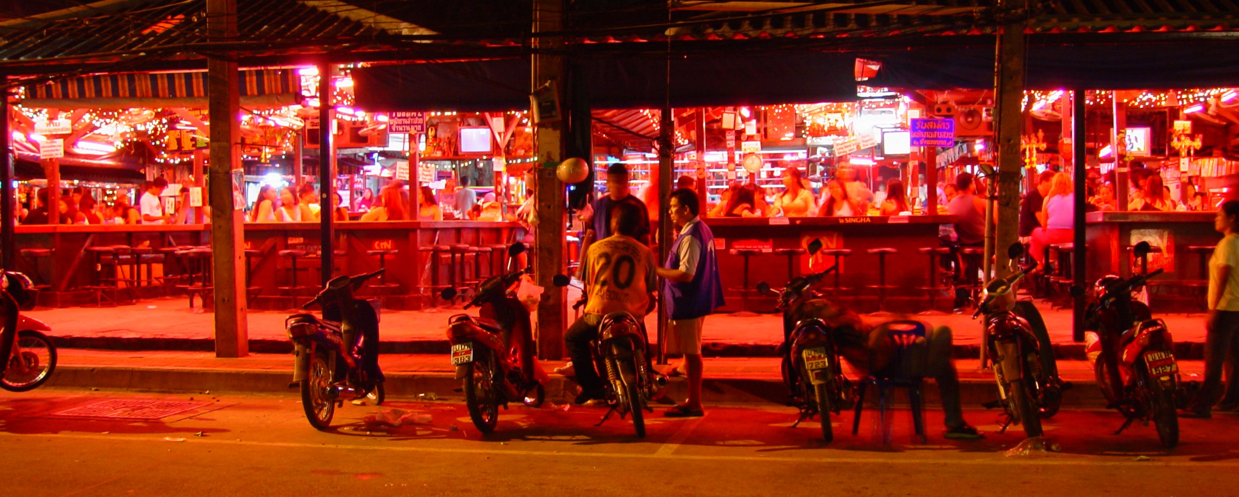 Nightclub at Pattaya (Thailand). Pattaya, Thailand, along the waterfront, taken myself (SEE EXIF record)